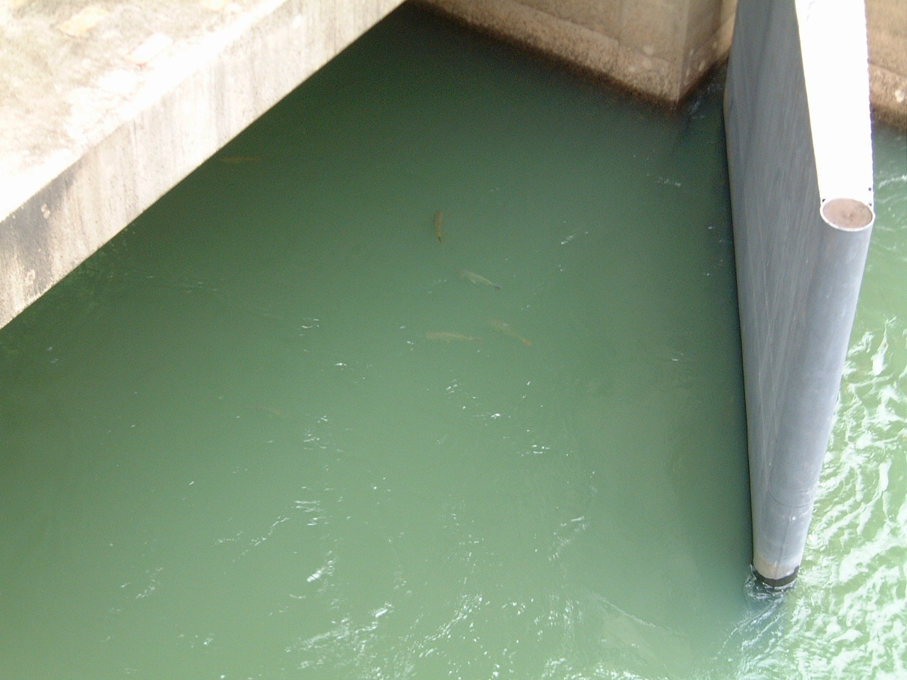 Fish elevator (flood gate/entry to a fish ladder of unknown type) at Yaciretá dam, Argentina